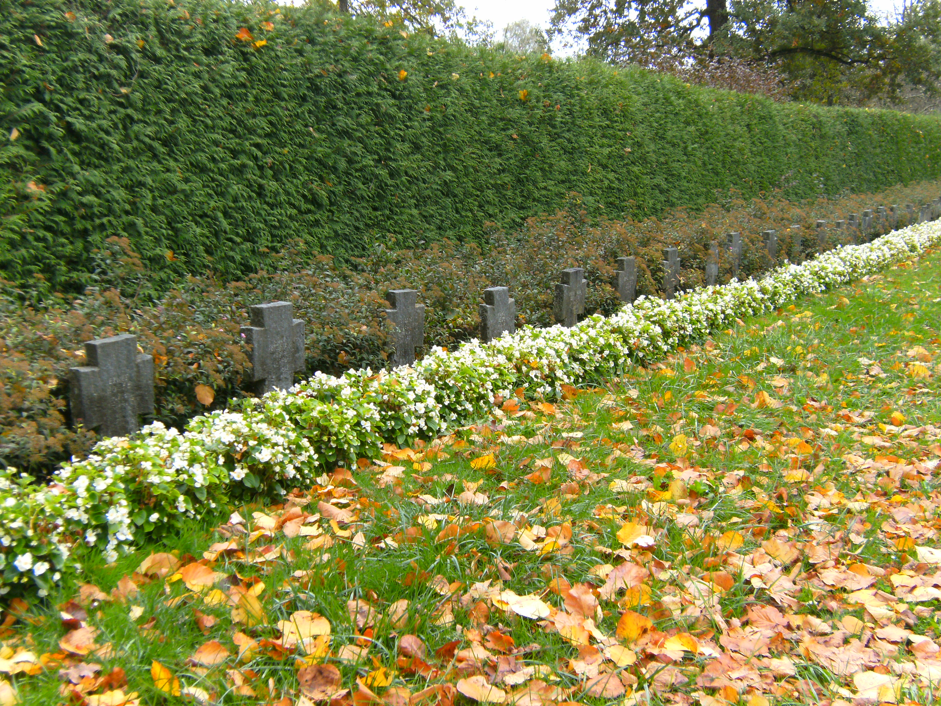 Hauptfriedhof Konstanz, Germany (main cemetery), Riesenbergweg. German military graves of World War II At the upper end of the cemetery.